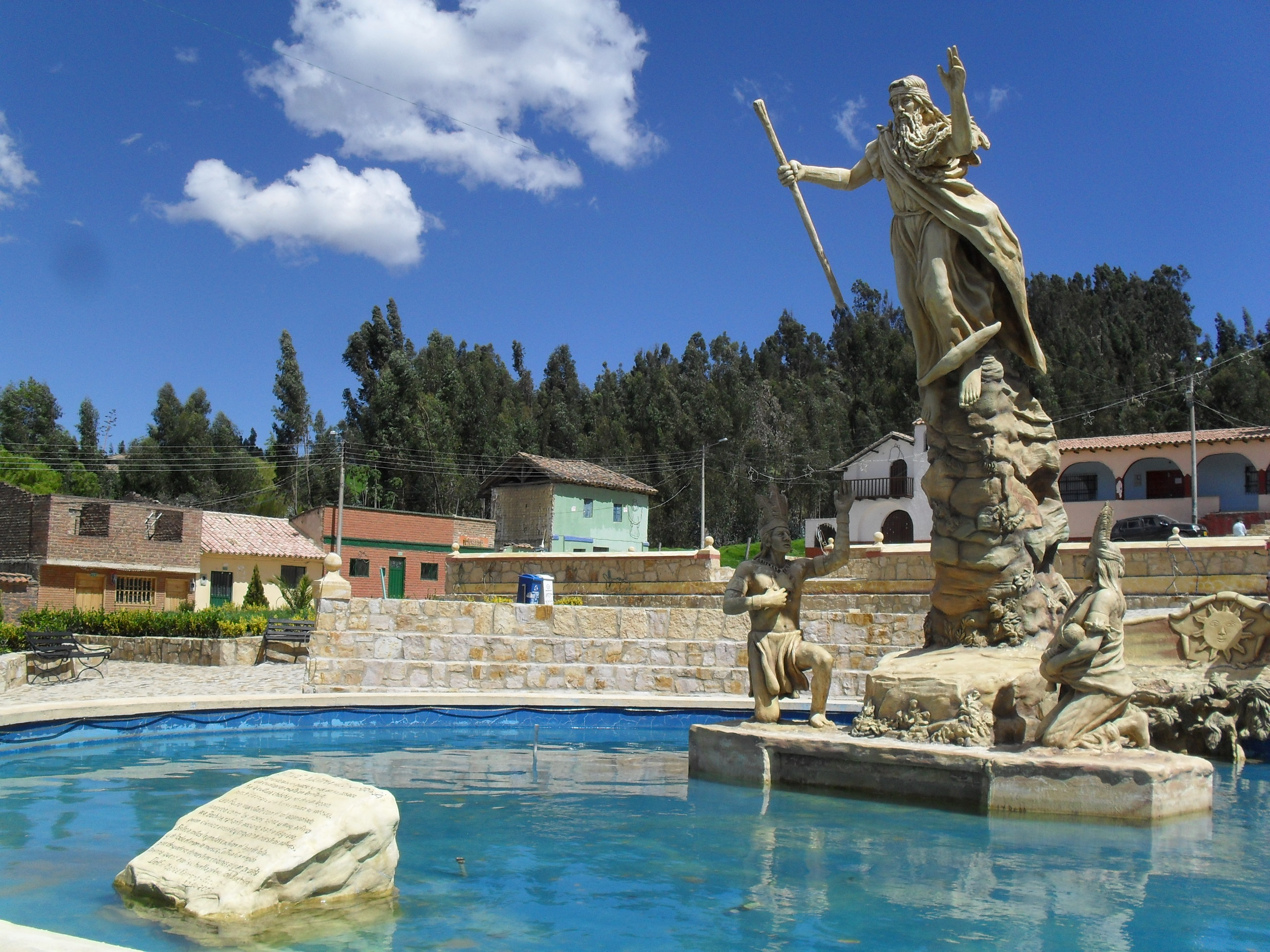 Bochica's Monument in the Municipality of Cuítiva, Boyacá, Colombia